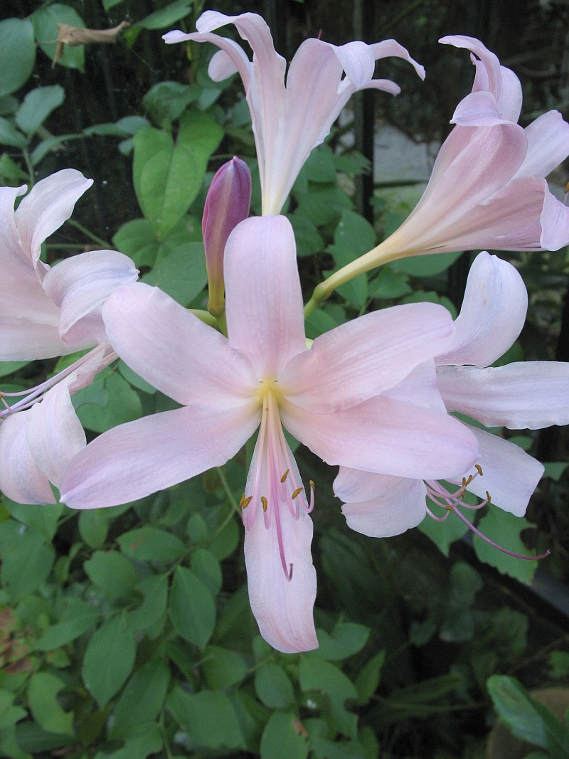 Photograph of Lycoris squamigera, taken in Machida city, Tokyo, Japan.